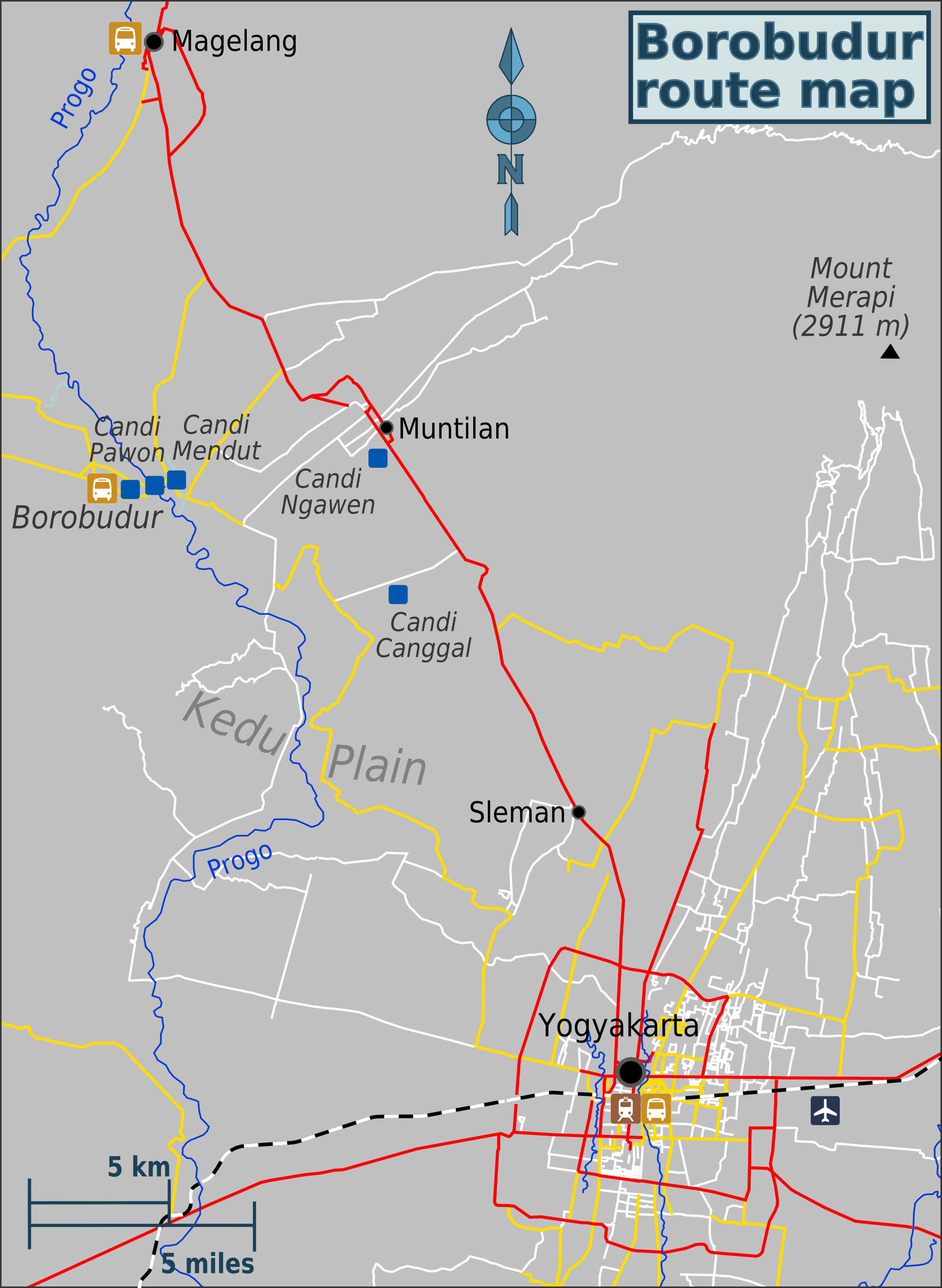 Borobudur route map. PNG, Borobudur Map of: Borobudur¤.